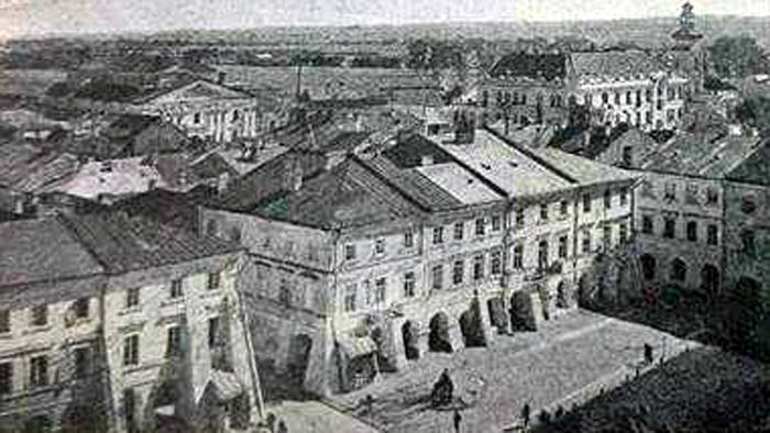 View of the Old Town